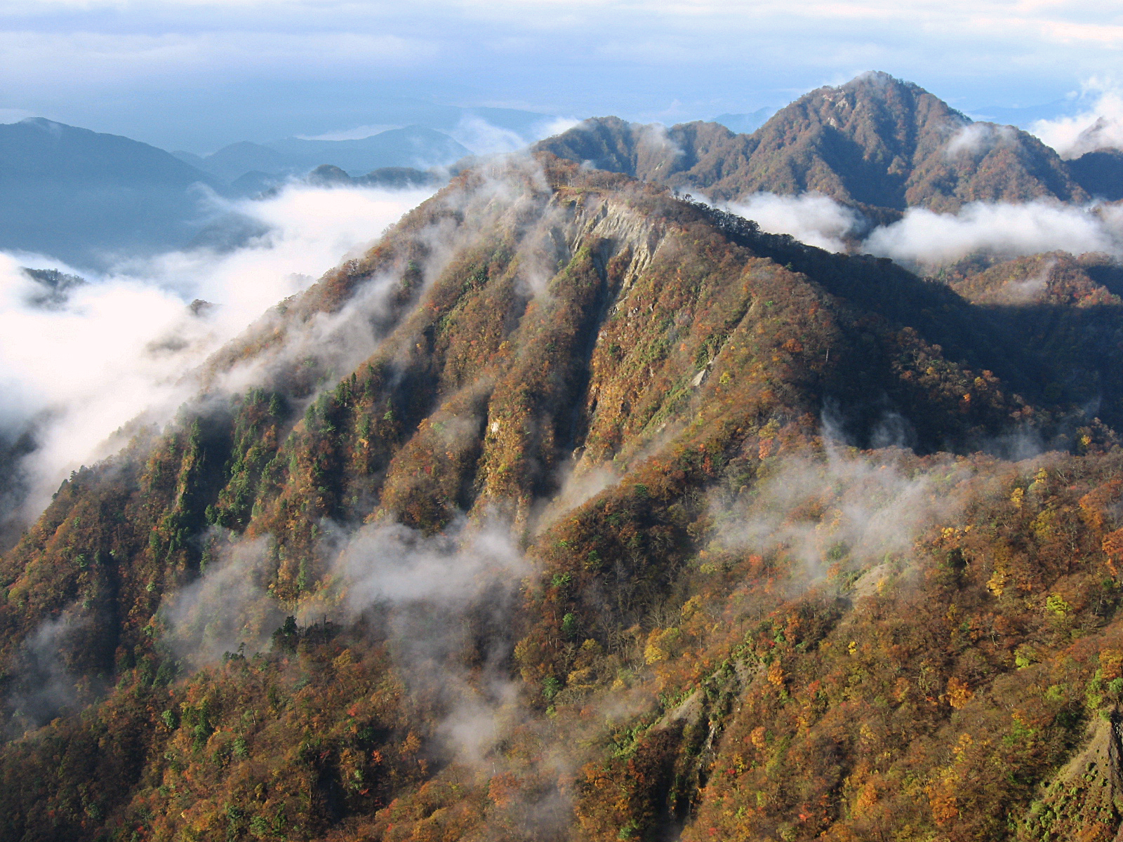 Mt.Usugatake (臼ヶ岳 Usu-ga-take) as seen from west side of Mt.Hirugatake, Mts.Tanzawa, Kanagawa, Japan.